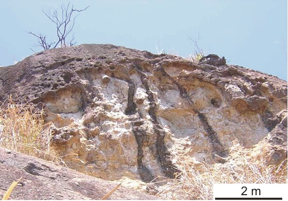 Case hardening examples